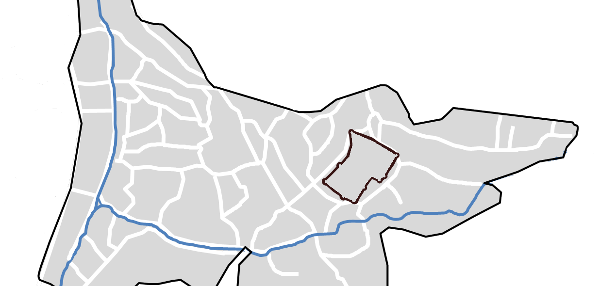 Map of "Yukhary bush" historical and architectural reserve in Shakiç Azerbaijan. Based on the Google Map (rivers and streets) and Official map of Shaki (borders of the reserve).